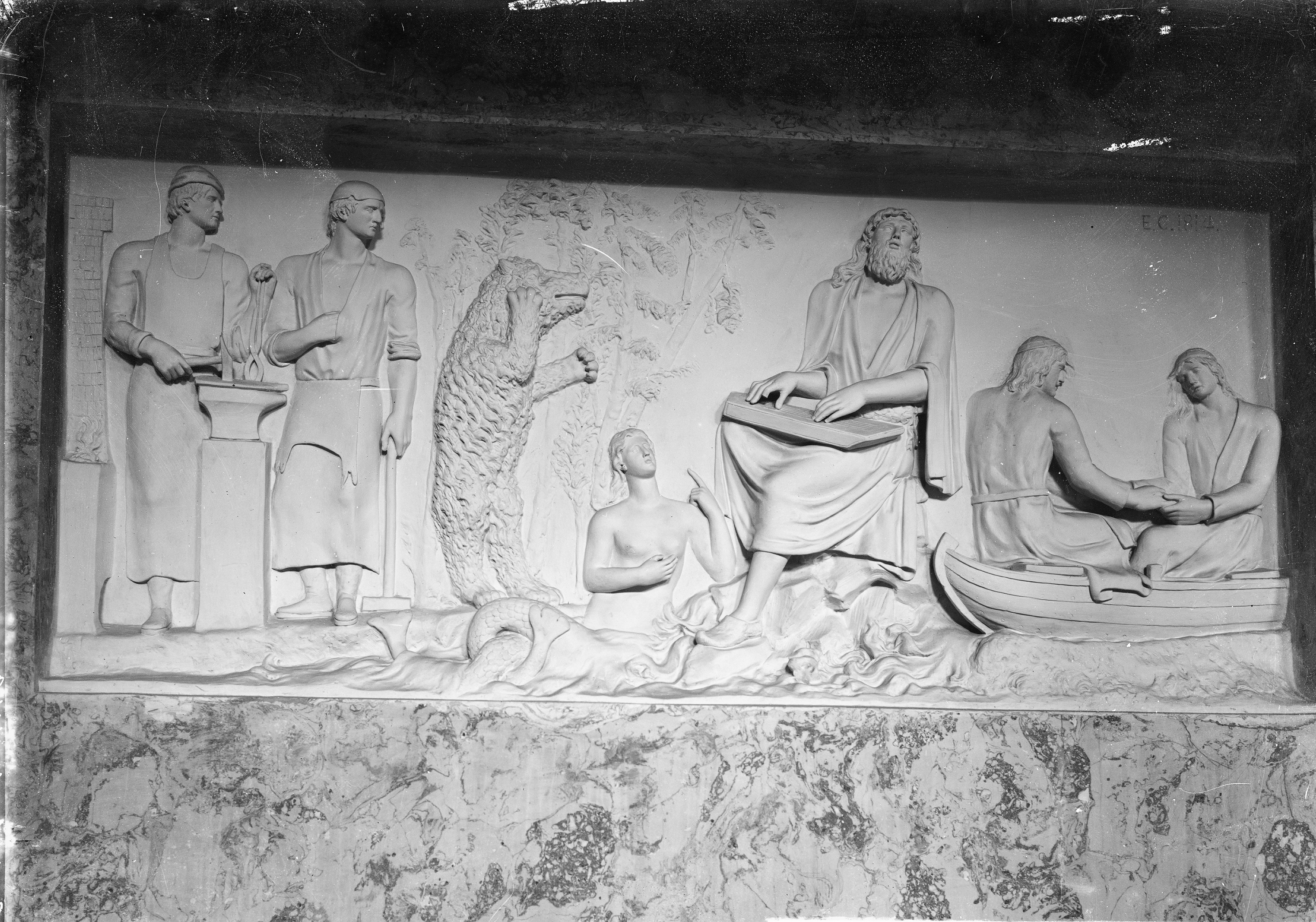 Considered to be the first visual depiction of Väinämöinen. Located at Old Academy Building in Turku.